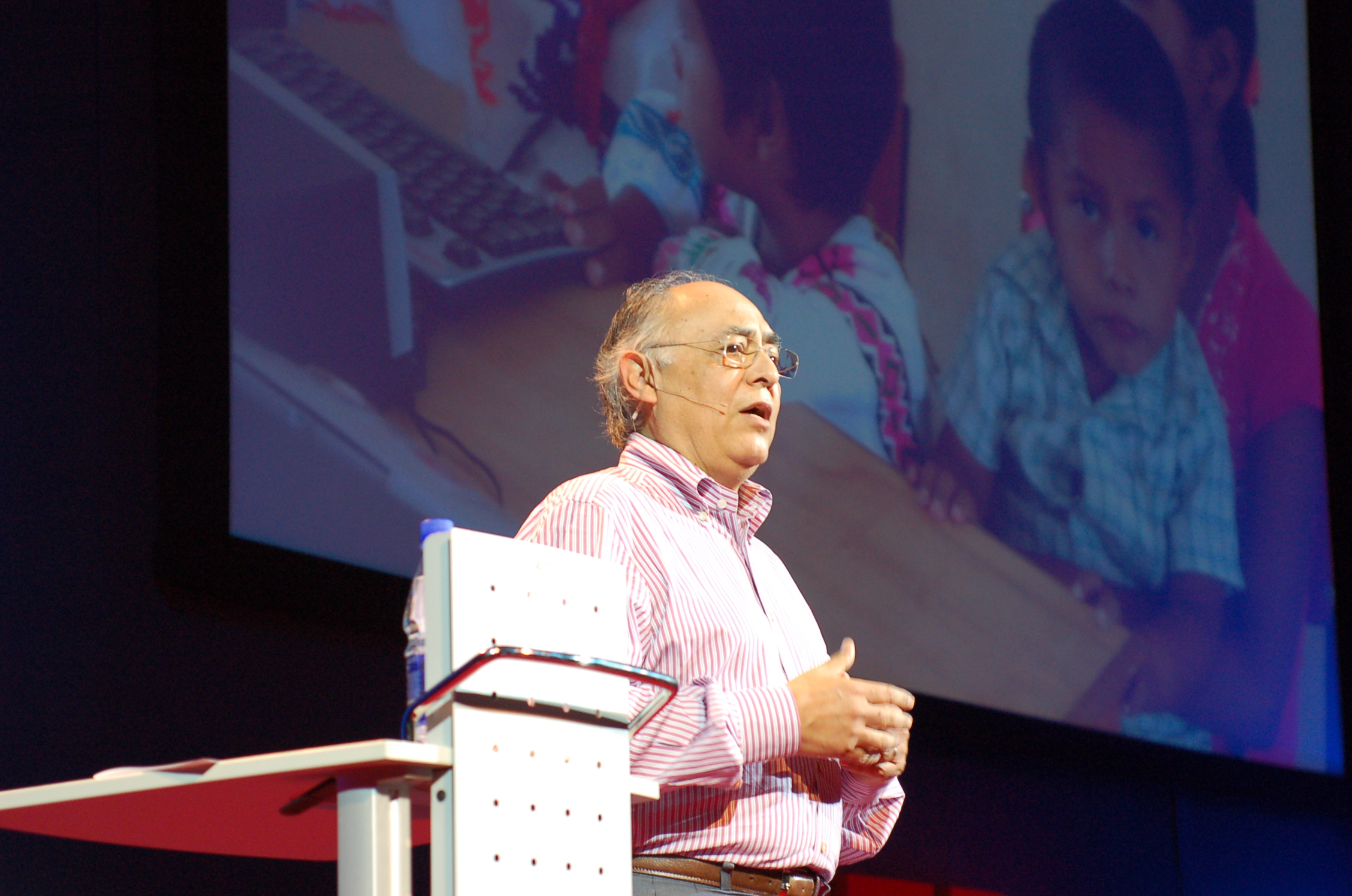 Héctor Ruiz, former CEO of Advanced Micro Devices, Inc. (AMD), speaks at the TEDGlobal 2007 in Arusha, Tanzania